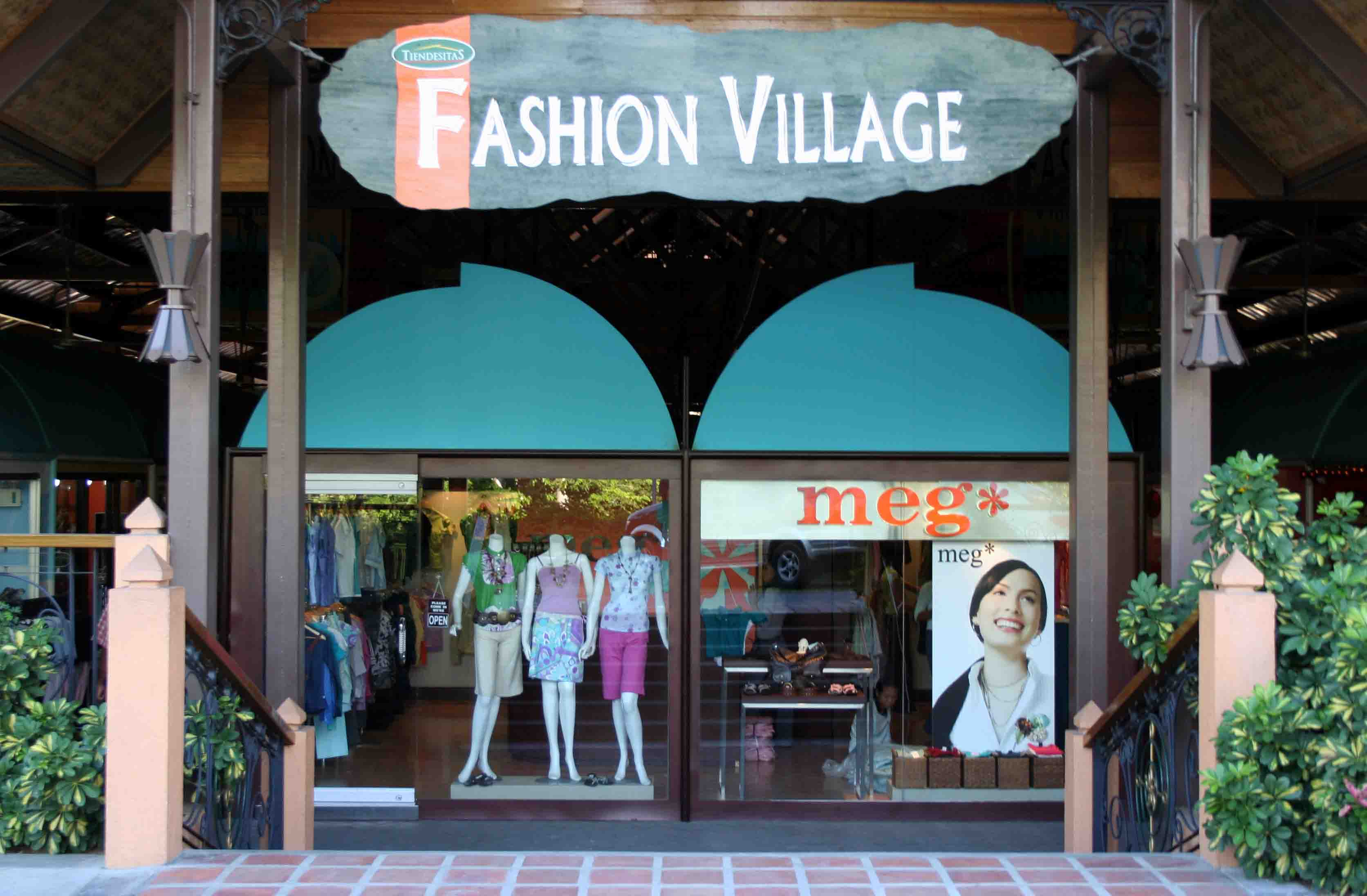 Picture of Fashion Village in Tiendesitas